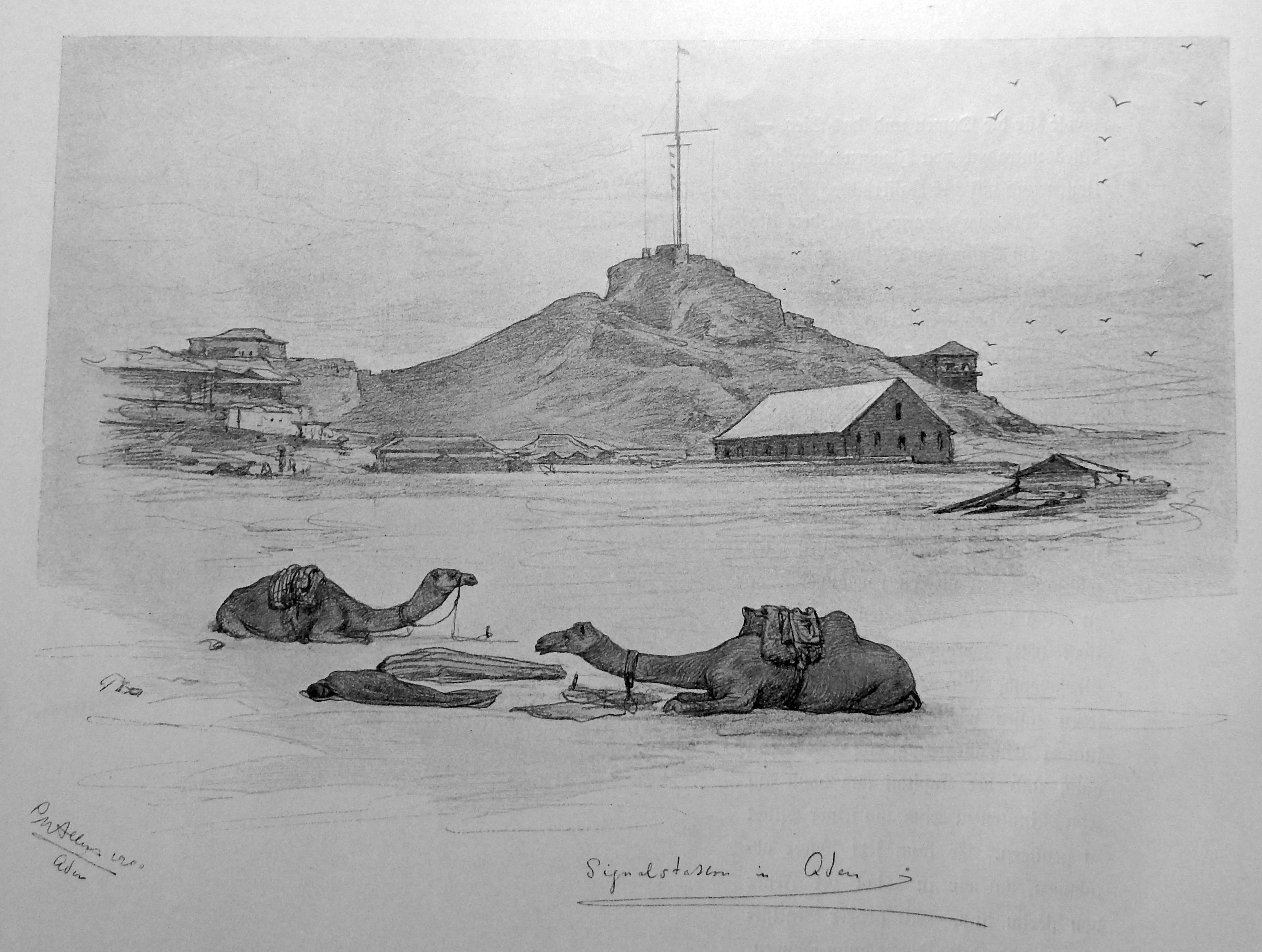 Signal Station in Aden.